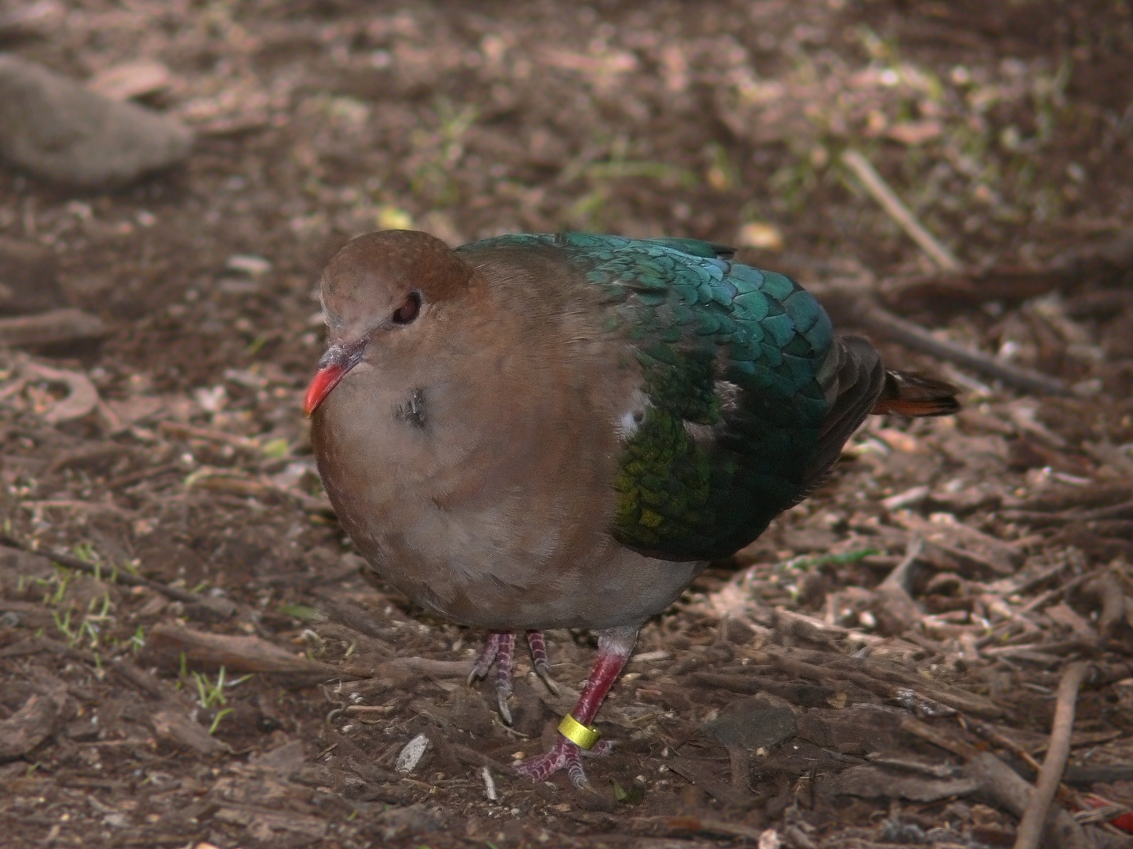 Pacific Emerald Dove Chalcophaps longirostris, captive.